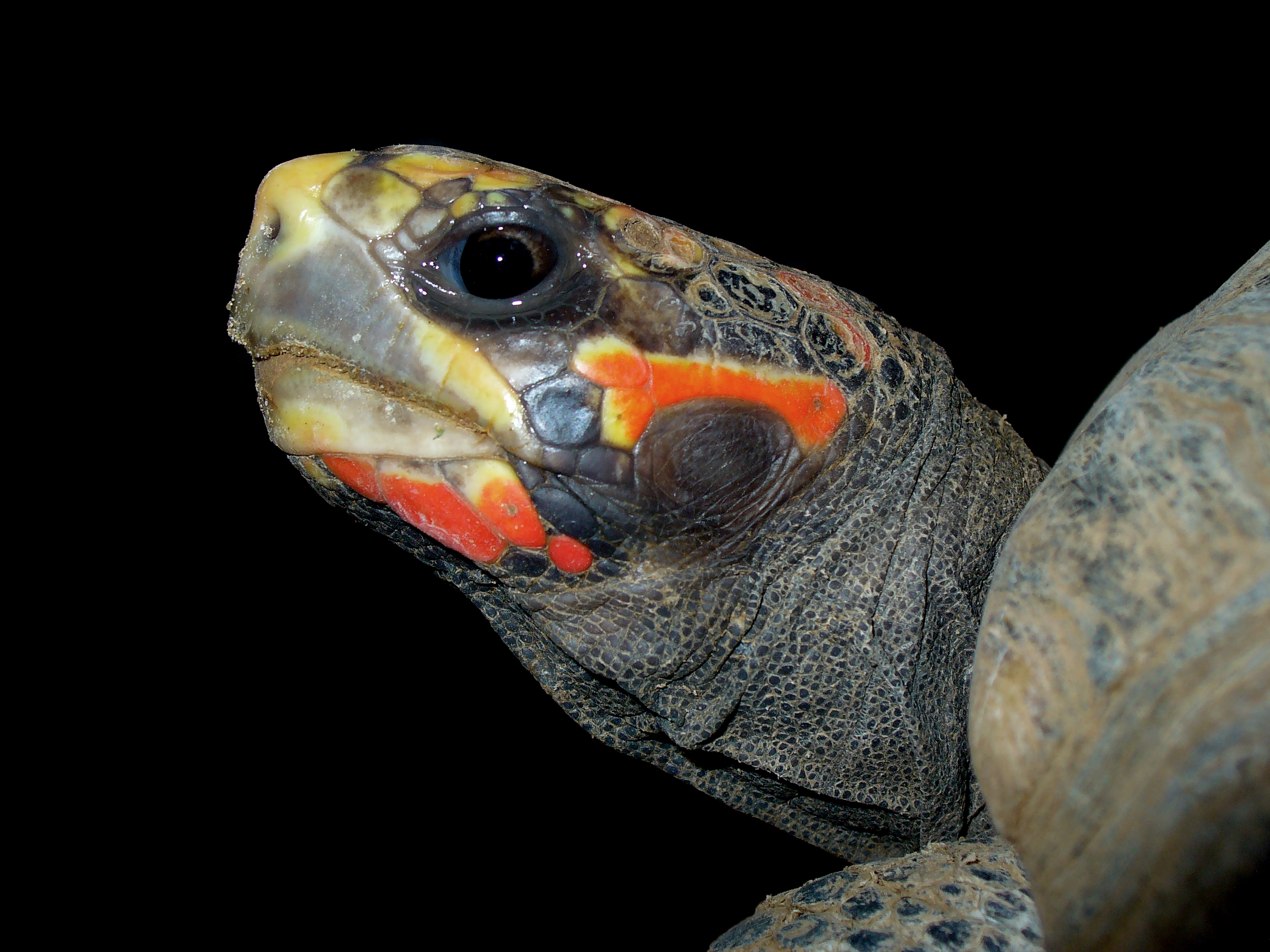 Red-footed Tortoise; Palmitos Park, Maspalomas, Gran Canaria, Canary Islands, Spain.